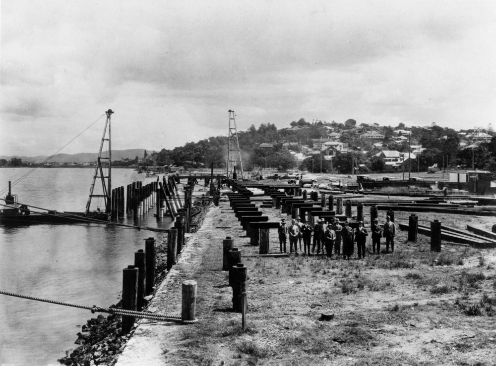 Brett's Wharf at Hamilton, Brisbane, ca. 1929 View of Brett's Wharf looking south towards the houses on Hamilton hill. A group of men pose in the foreground. In 1928 the Queensland Government leased to Messrs. Brett and Company a part of the Port Estate at Hamilton on the Brisbane River and a subsidiary company, Brett's Wharves and Stevedoring Co. Ltd., was formed to take over the firm's shipping interests. In October 1928 plans and specifications were prepared for a wharf suitable for the largest ships visiting the port. Provision was to be made for the storage and handling of general cargo, including wool and large quantities of timber. A timber wharf was subsequently built equipped with two electric cranes. The contract for the wharf was let to Messrs. Taylor Bros. of Brisbane on the 1st December 1928. The first pile was driven on the 16th January 1929 and the first ship berthed at the wharf on the 26th July. This was the Texas Oil Company's tanker 'Australia' of 19 000 tons. (Information taken from: Edward Boyd Cullen, The construction of Brett's Wharf, Brisbane, 1933).